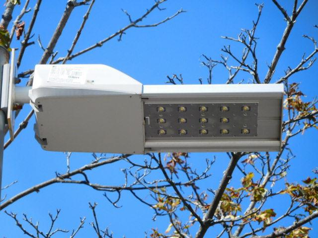 History of street lighting: Leotek E-Cobra EC4 (50-130 watts)